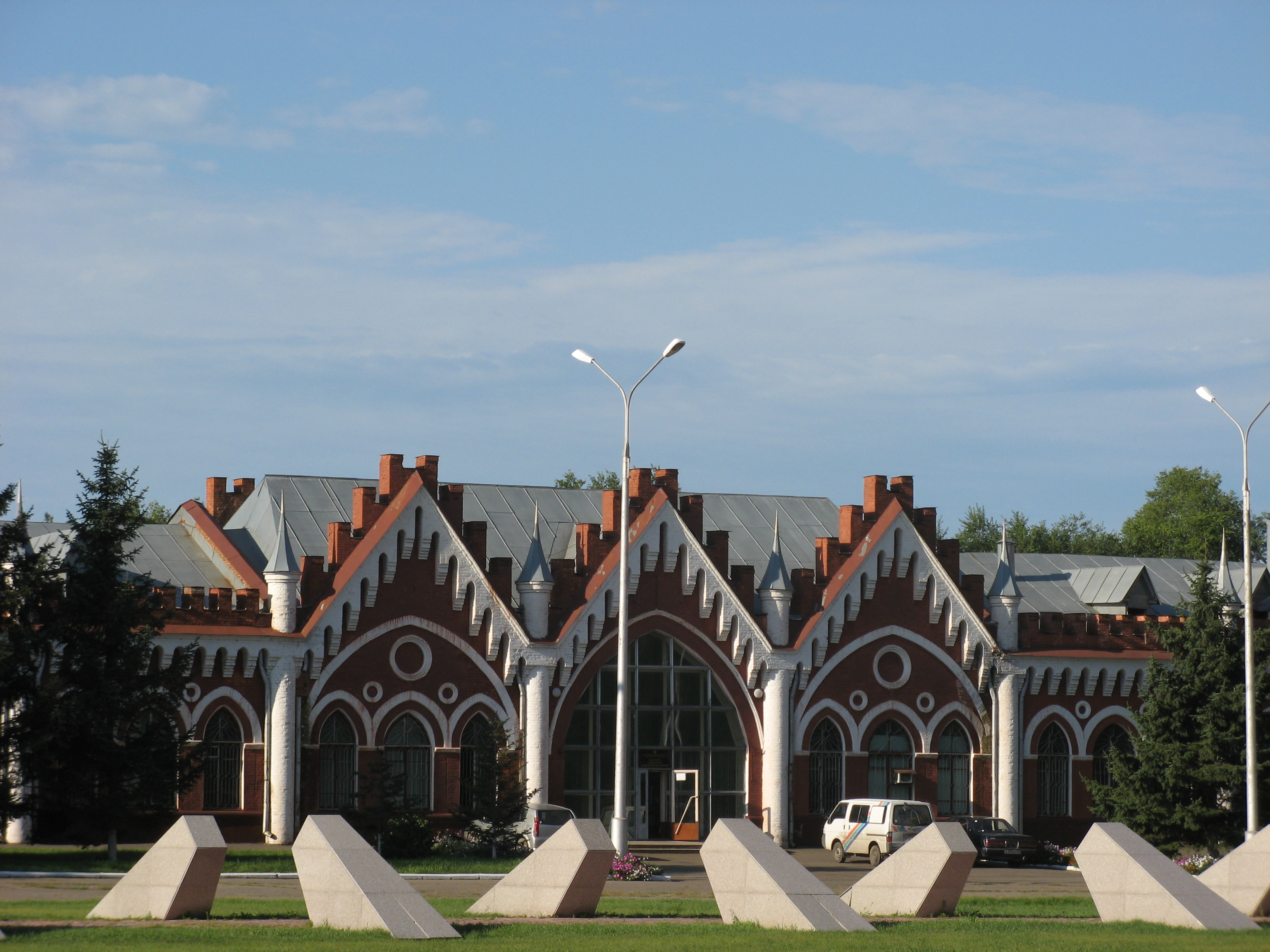 Building of Trade House "Mauritania", later there was a River Boat Station, now there are laboratories of the Geology and Land Use Institute, Far Eastern Branch of the Russian Academy of Science